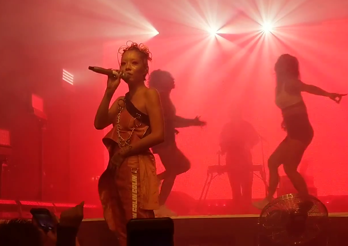 Rina Sawayama performing in London in 2018